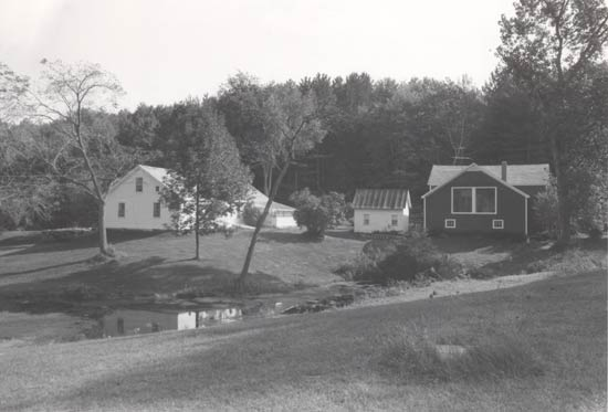 The Robert Frost Farm in South Shaftsbury, Vermont. Picture taken in 1974, while property was designated a National Historic Landmark